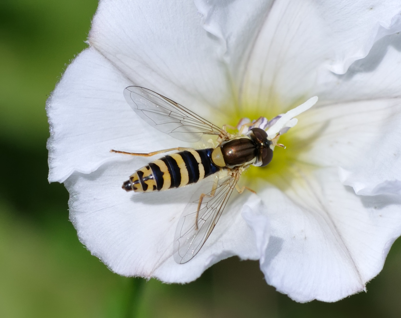 Female Long Hoverfly (Sphaerophoria scripta) in the Kätcheslachpark, Frankfurt, Germany.